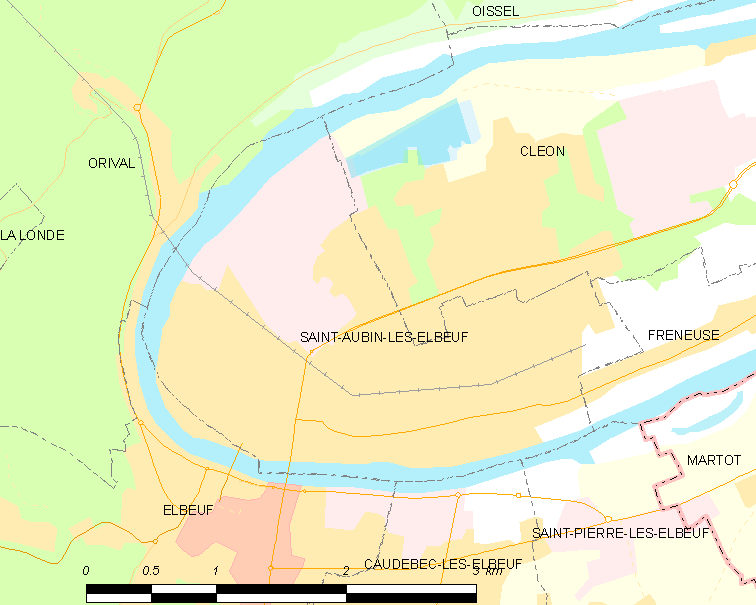 Map of French municipality Saint-Aubin-lès-Elbeuf